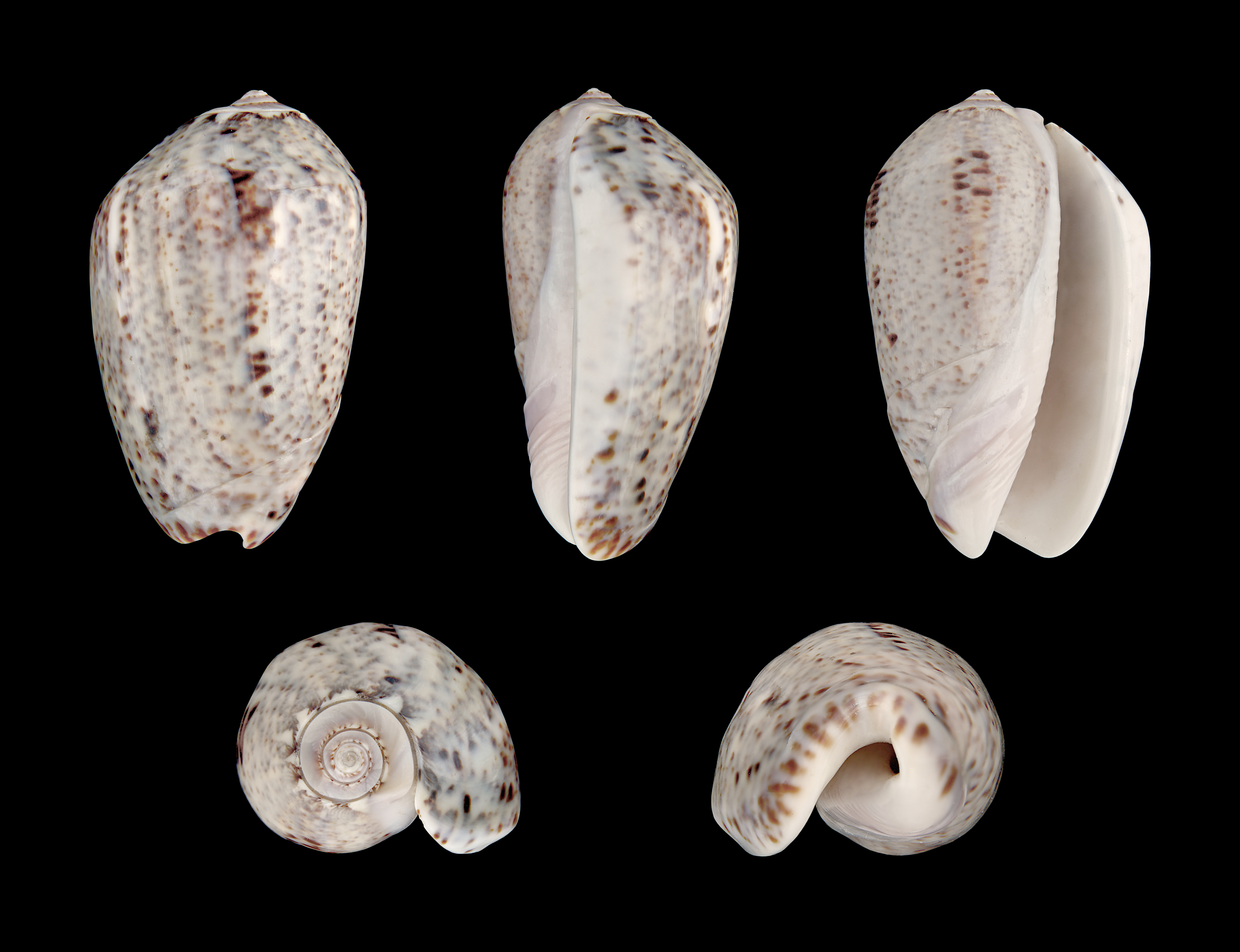 Angled Olive; Length 5.0 cm; Originating from the Pacific coast of Mexico; Shell of own collection, therefore not geocoded. Dorsal, lateral (right side), ventral, back, and front view.